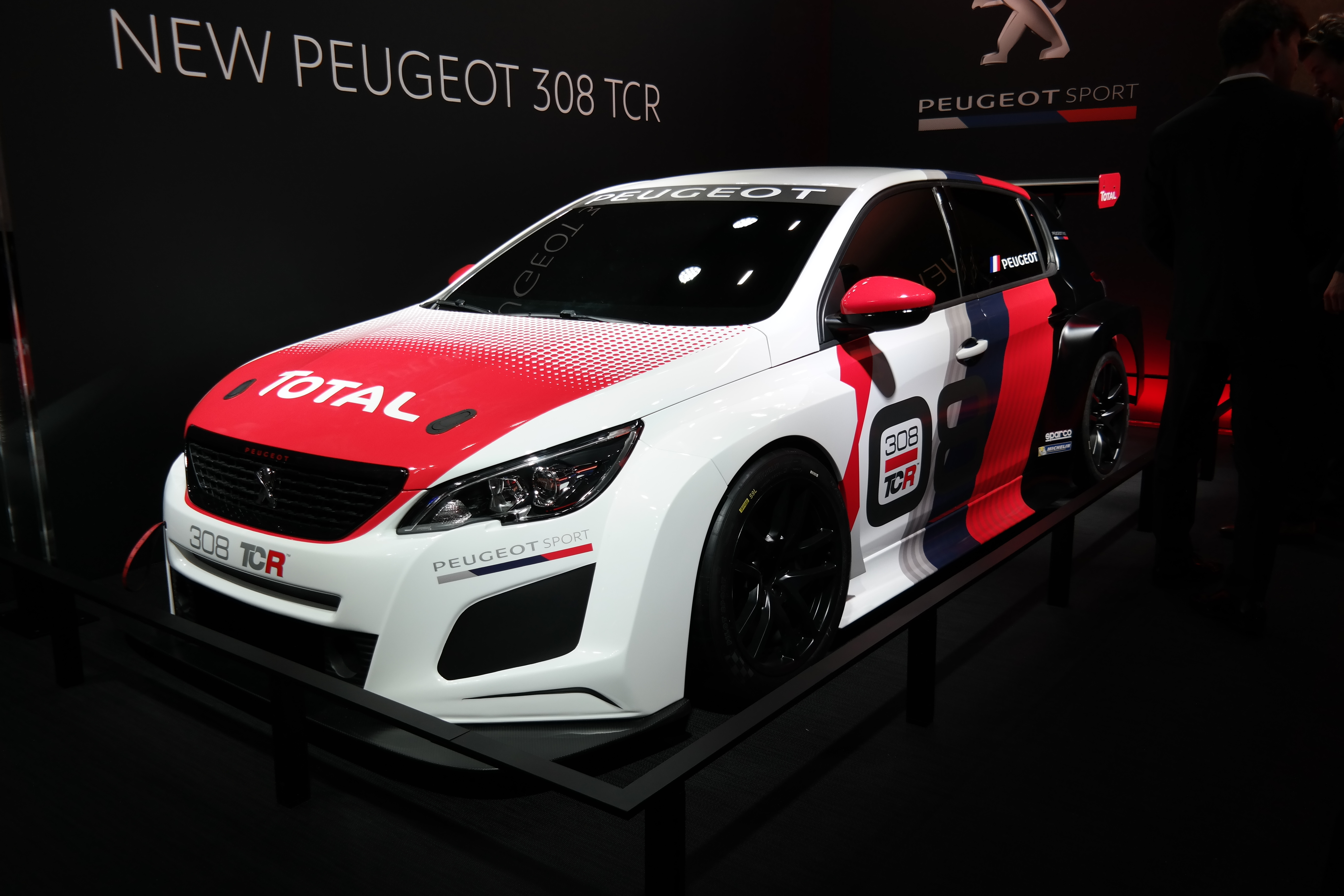 Geneva Motor Show 2018 (photo taken on the first press day)